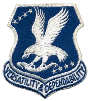 Emblem of the 44th Air Refueling Squadron (SAC) (1950s)